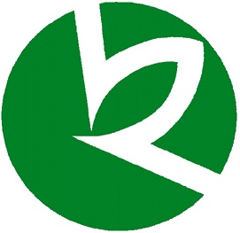 Joetsu Niigata chapter